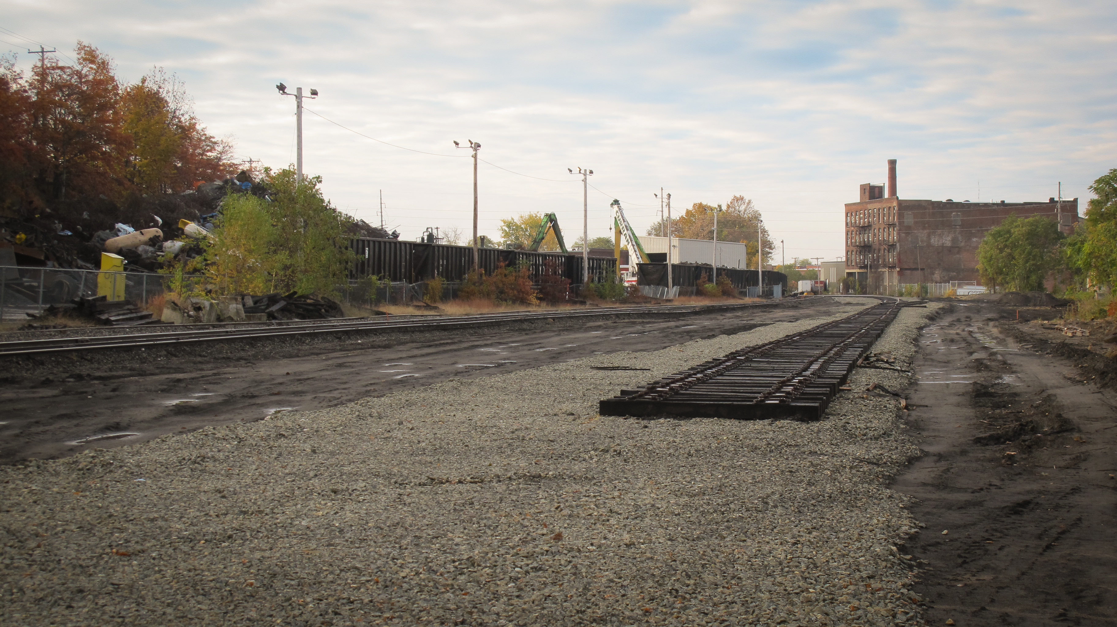 A view of the of site where the future Holyoke, Massachusetts railroad station platform will be built, near the corner of Dwight and Main streets.